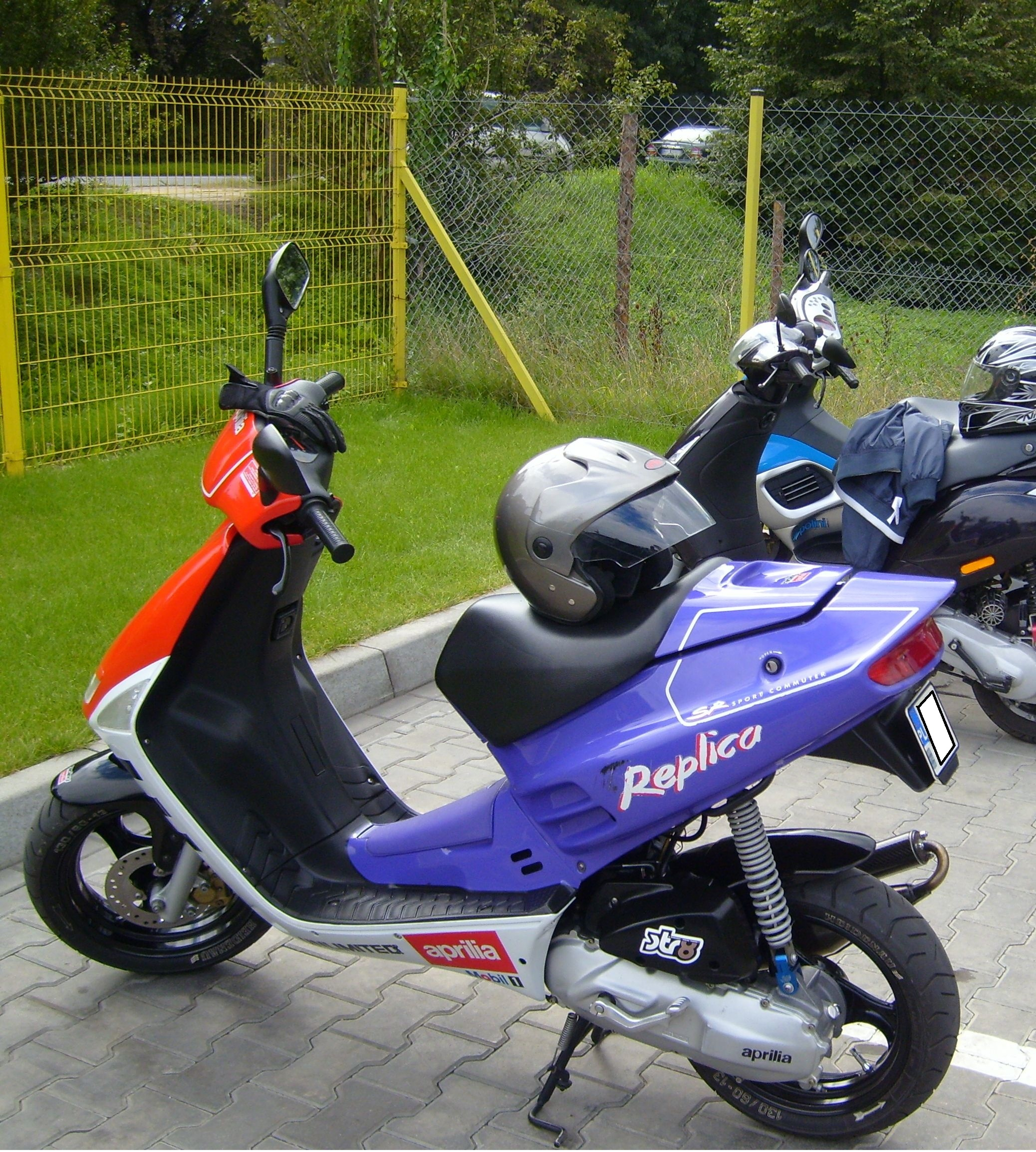 Aprilia Sr Replica